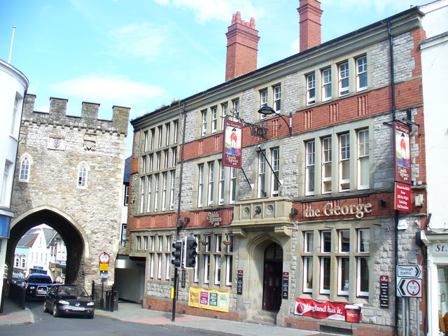 The Town Gate and the George The medieval gate was once connected to the Port Wall and the stonework dates back to early 16th century. The George is now part of a "Smith and Jones" chain.